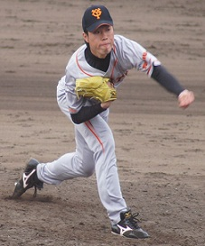 Giants_ohdachi_016g